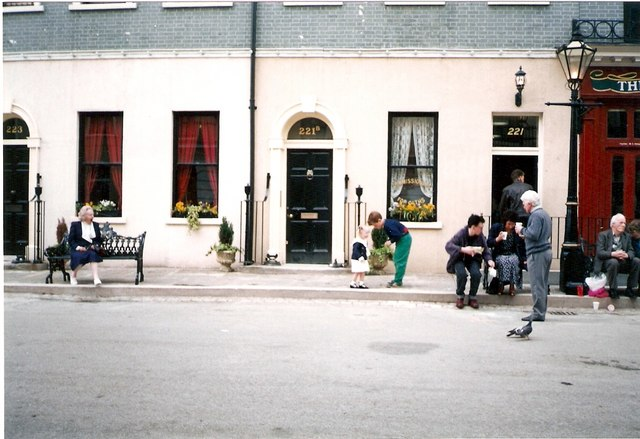 Granada Studios Tour , Baker Street The guided tour itself, which lasted around an hour, comprised various mock sets from Granada productions, including a recreation of the Sherlock Holmes-era Baker Street backlot set from The Adventures of Sherlock Holmes series